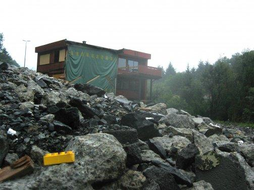 Hatlestad Terrasse, a neighborhood in Bergen, Norway, 2006. Five houses in the neighborhood were destroyed, and three people killed, in the Hatlestad Slide of September 14, 2005.